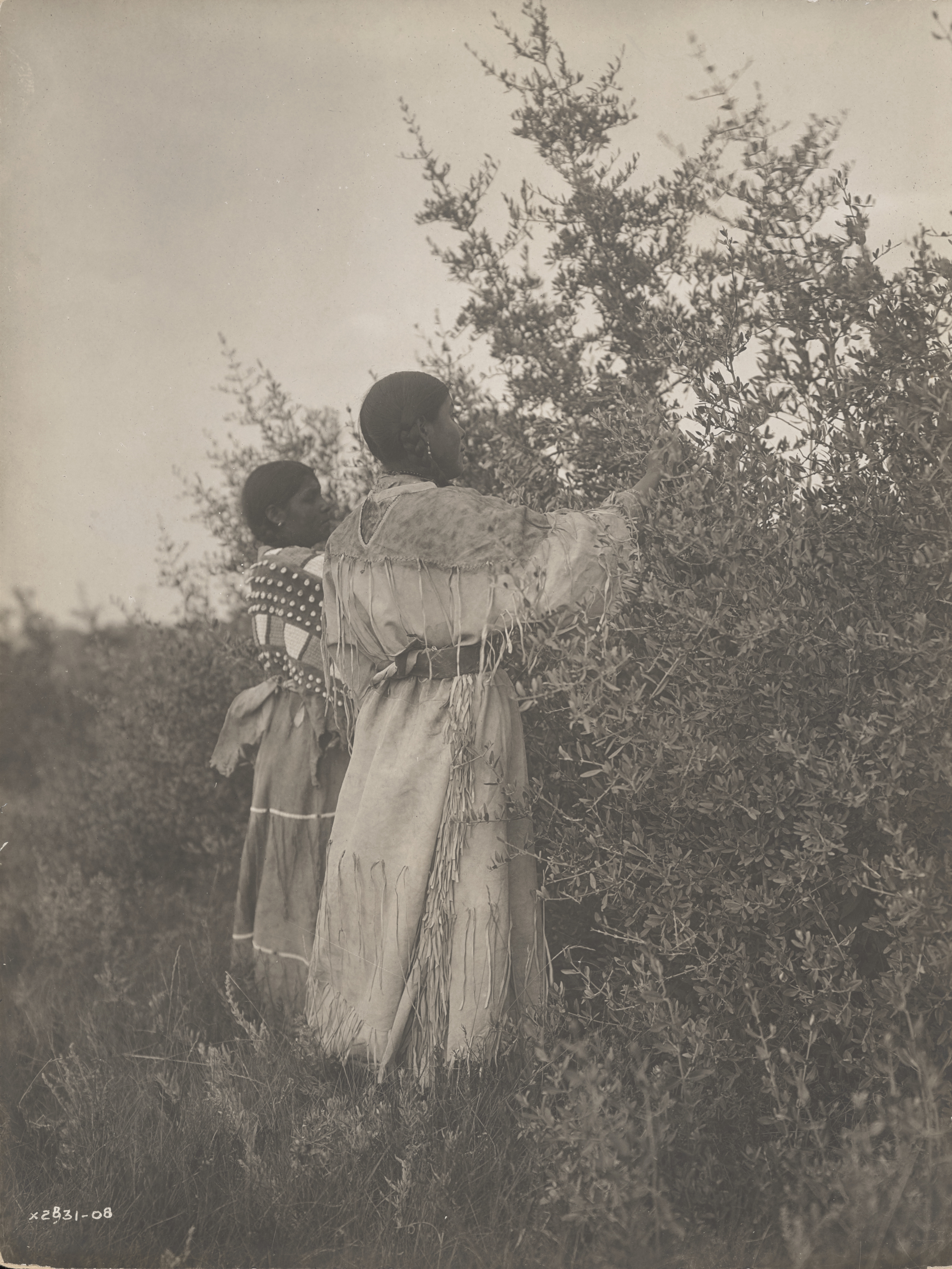 Mandan girls gathering berries. From the Edward S. Curtis Collection, Library of Congress.